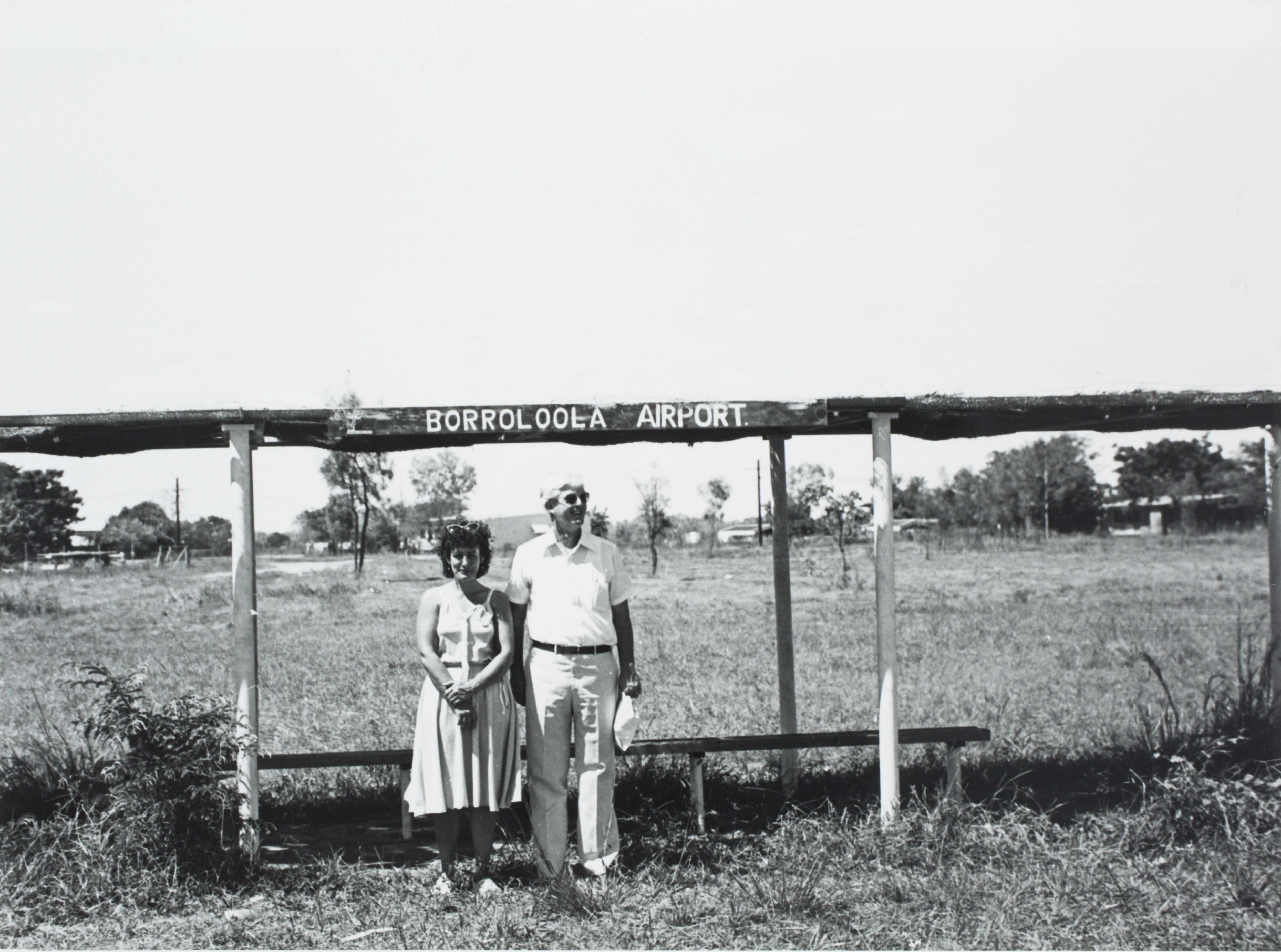 Former Chief Minister of the Northern Territory Ian Tuxworth at the Borroloola Airport on 24 April 1981 (PH0107/0318).